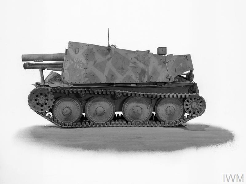 "German 'Grille' 15cm self-propelled gun"